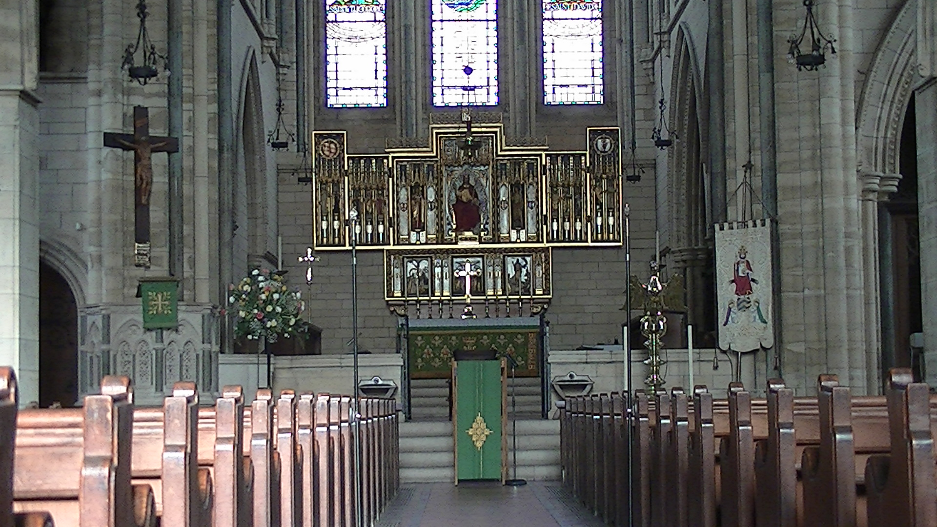 The reredos from St James the Great, Cardiff shown fitted in St Theodore's Church in Port Talbot.